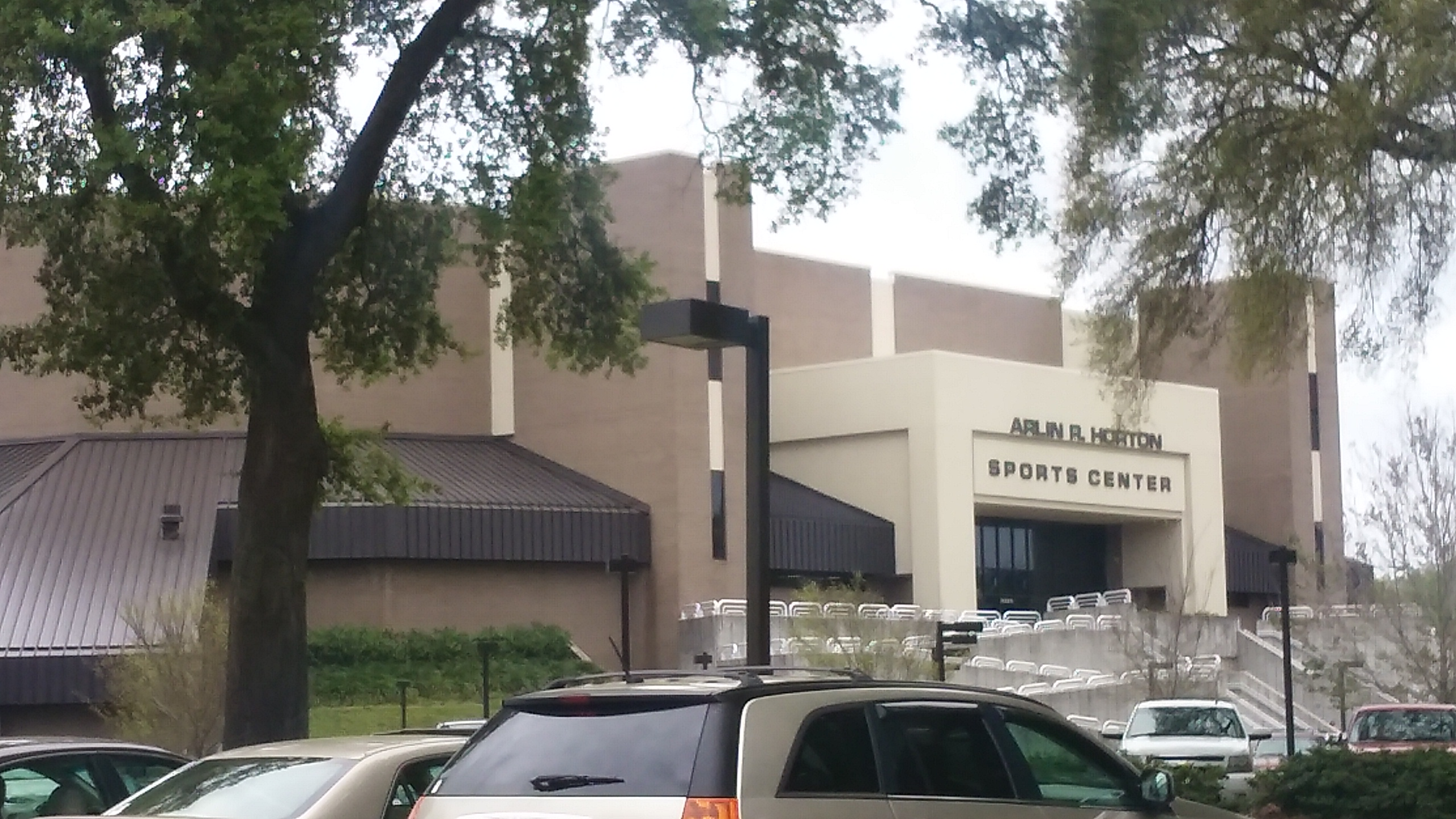 The Exterior of the Arlin R. Horton Sports Center at Pensacola Christian College. This image was taken during College Days, a public event at the institution.